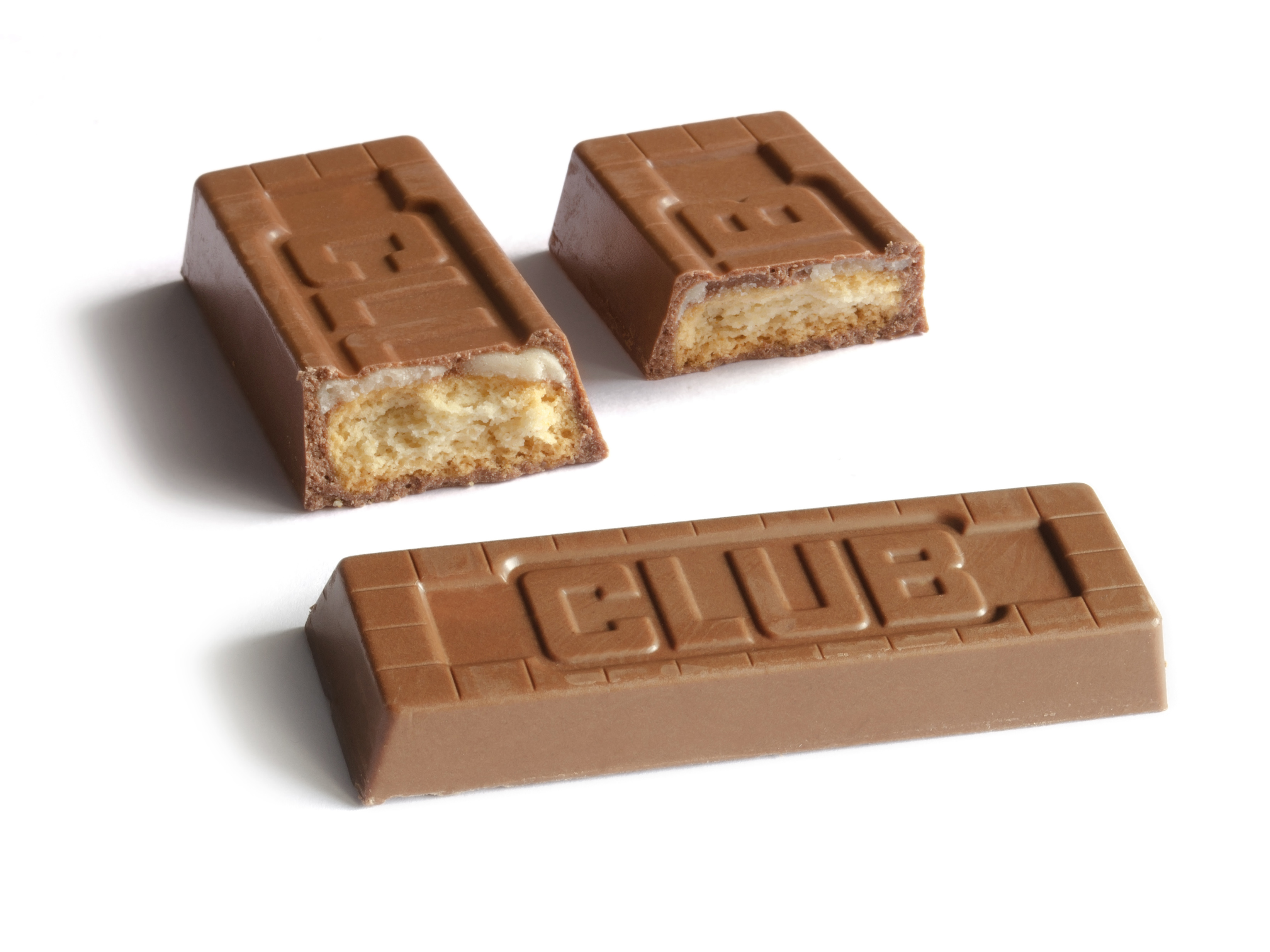 McVitie's Club Mint biscuit (combination of two shots of the same biscuit- both whole and with filling shown including layer of mint). ("Milk chocolate covered crunchy biscuit with a mint flavoured cream"). This is the version sold on the UK market in 2017 under the "McVitie's" brand- apparently the Irish version is different.